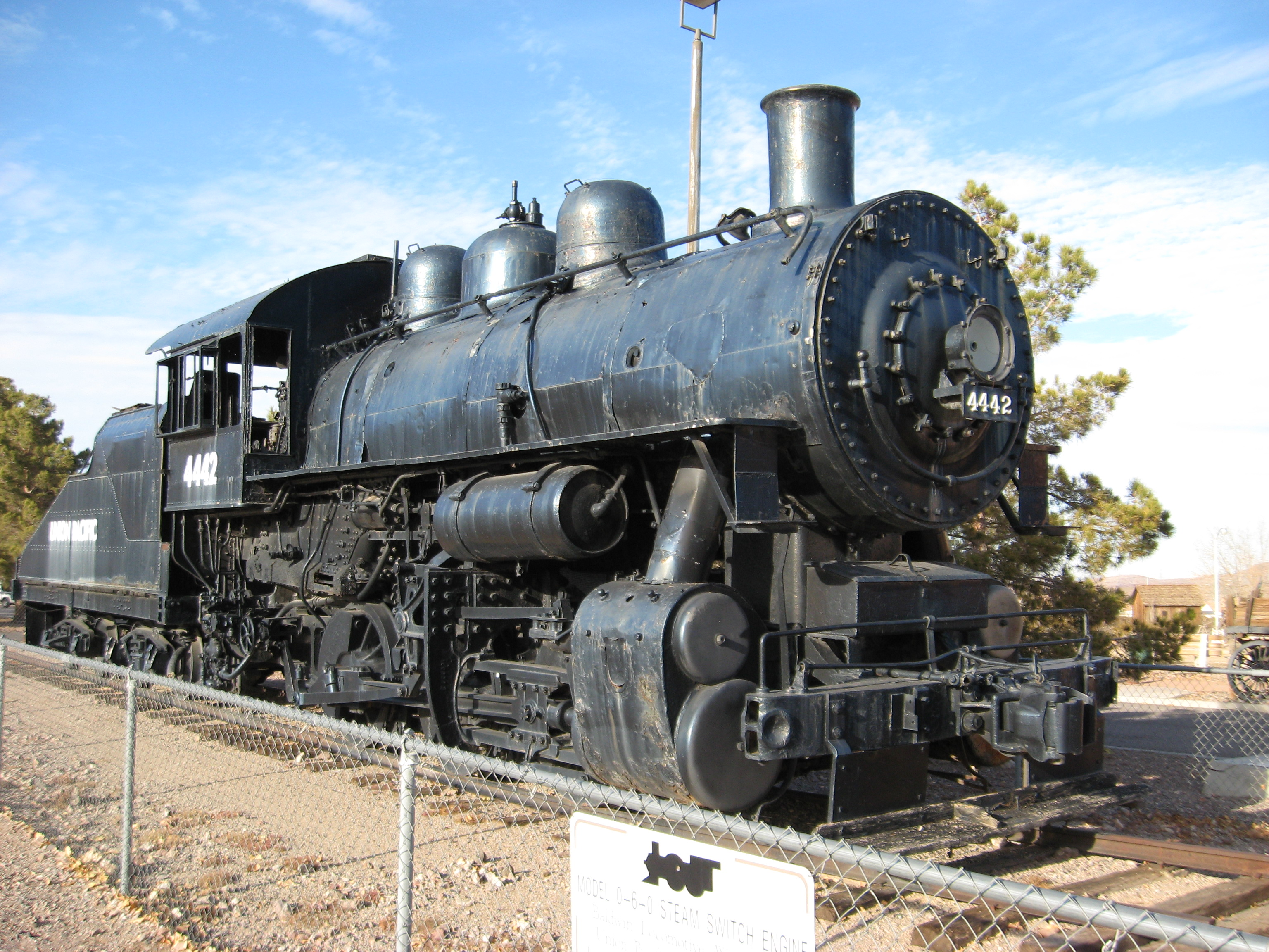 A locomotive at the Clark County Museum in Henderson, Nevada